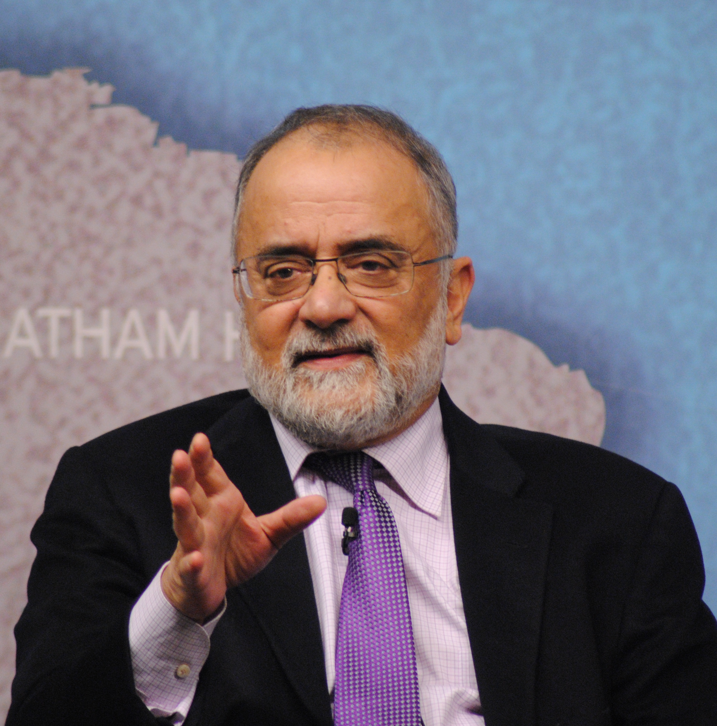 Pakistan: Implications of the Afghanistan Drawdown, 15 January 2014 cht.hm/1maAsID